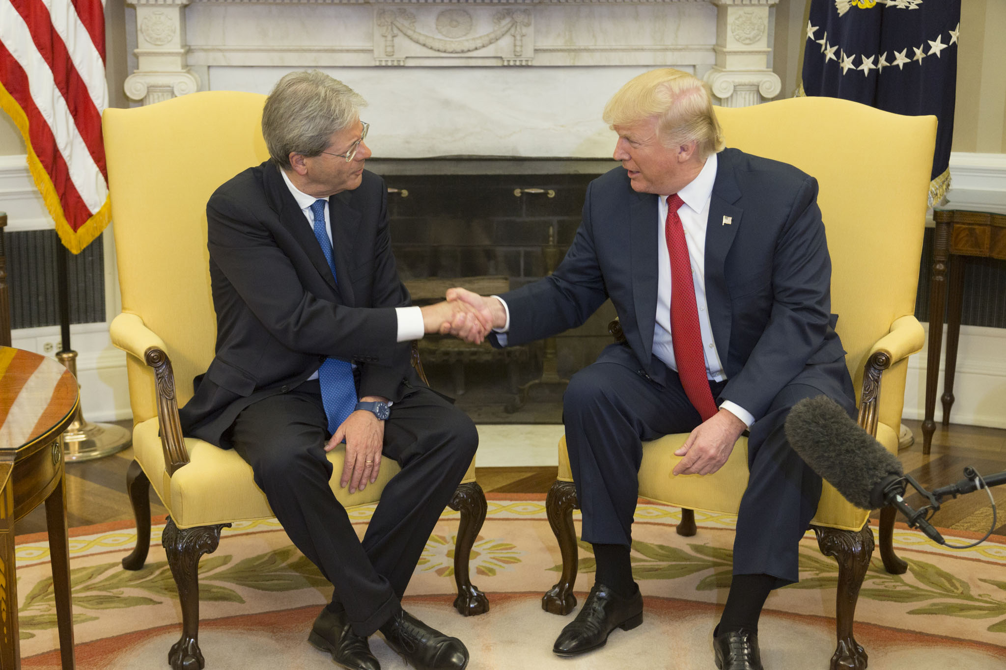 President Donald Trump and Italian Prime Minister Paolo Gentiloni meet, Thursday, April 20, 2017, in the Oval Office of the White House in Washington, D.C. (Official White House Photo by Shealah Craighead)